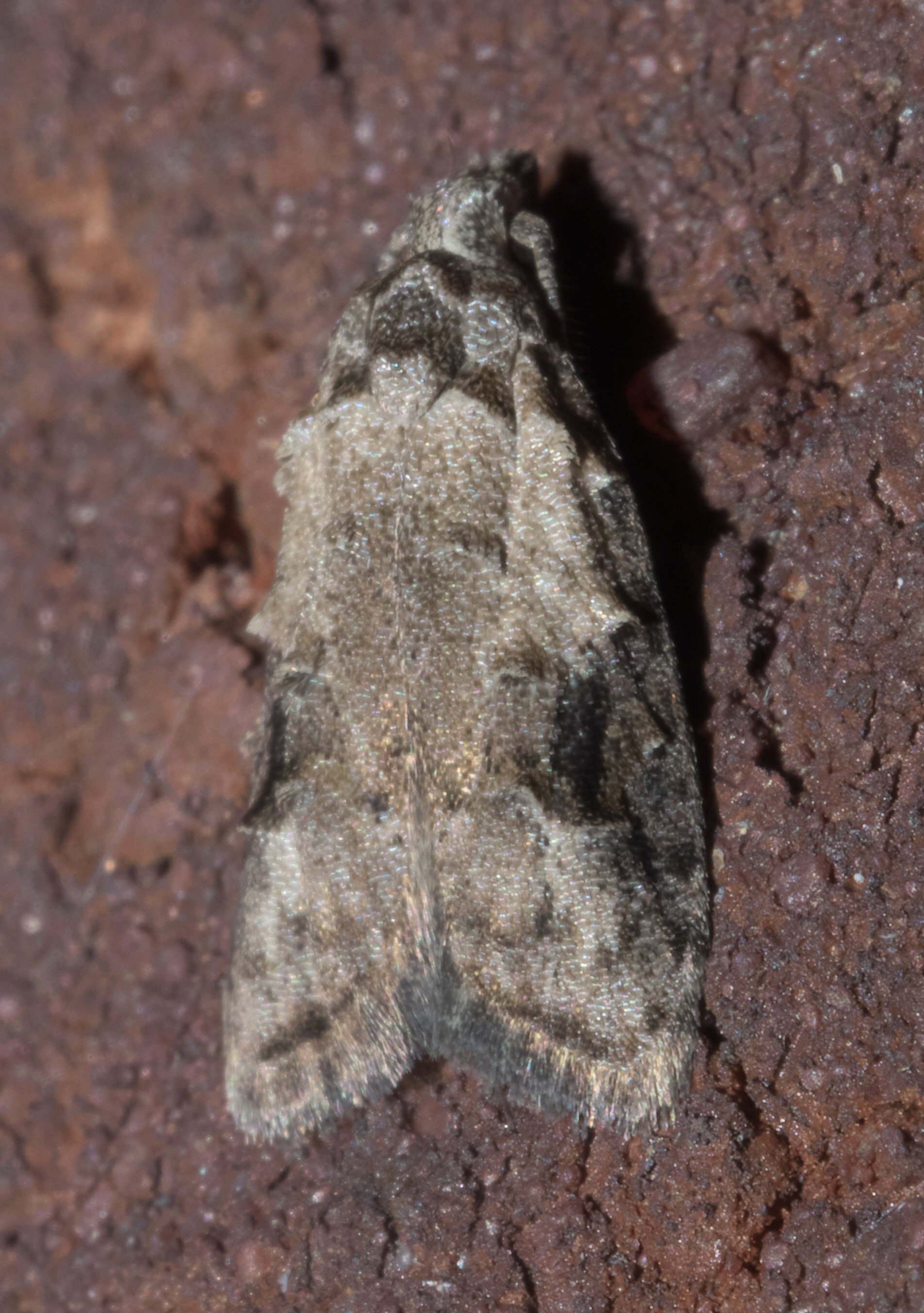 Carposina fernaldana, currant fruitworm moth, Size: 7.3 mm, ID Confidence: 90